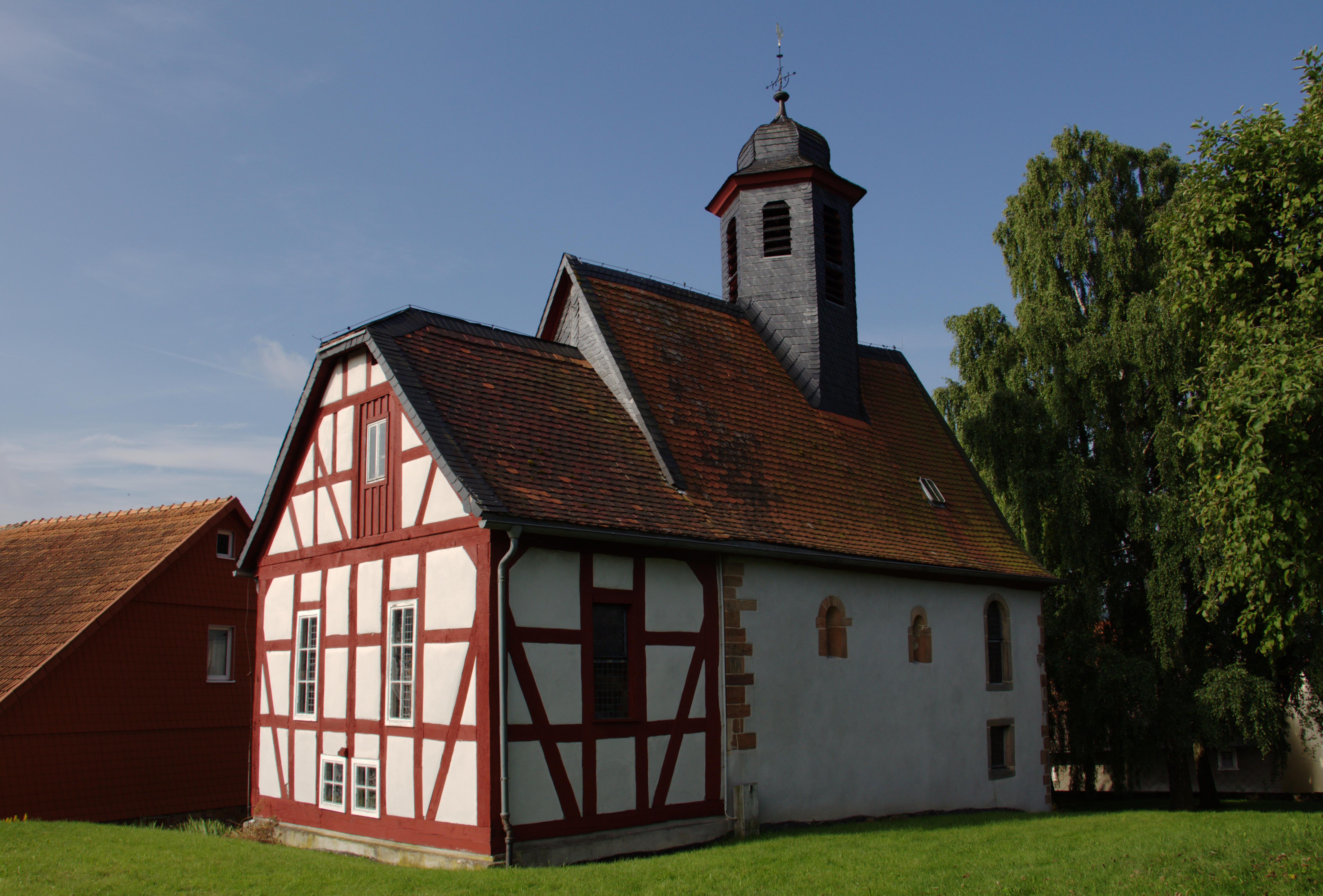 Protestant church in Alsfeld Elbenrod An der Leit 1 / Hesse / Germany